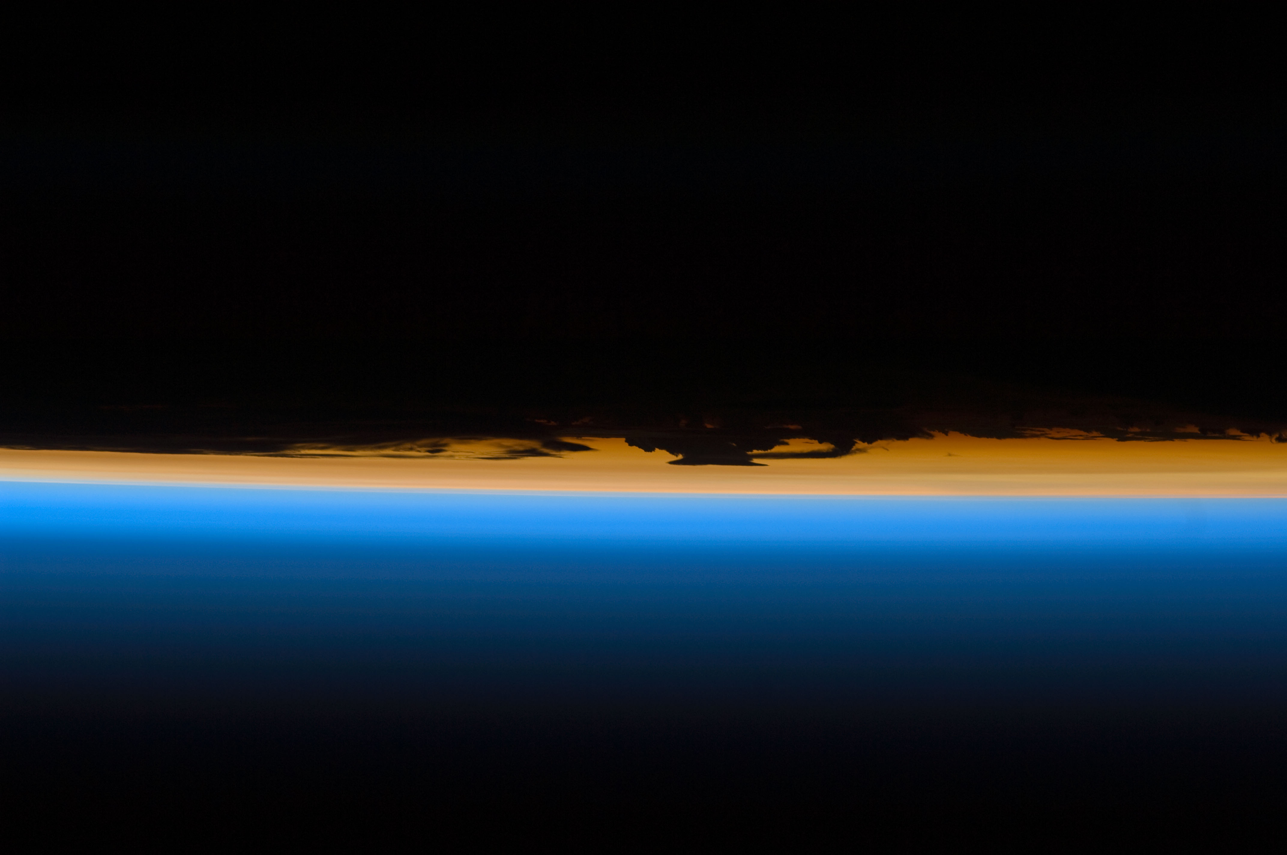 Layers of Earth's atmosphere, brightly coloured as the sun sets, are featured in this image taken by the STS-127 crew on the Earth-orbiting space shuttle Endeavour.